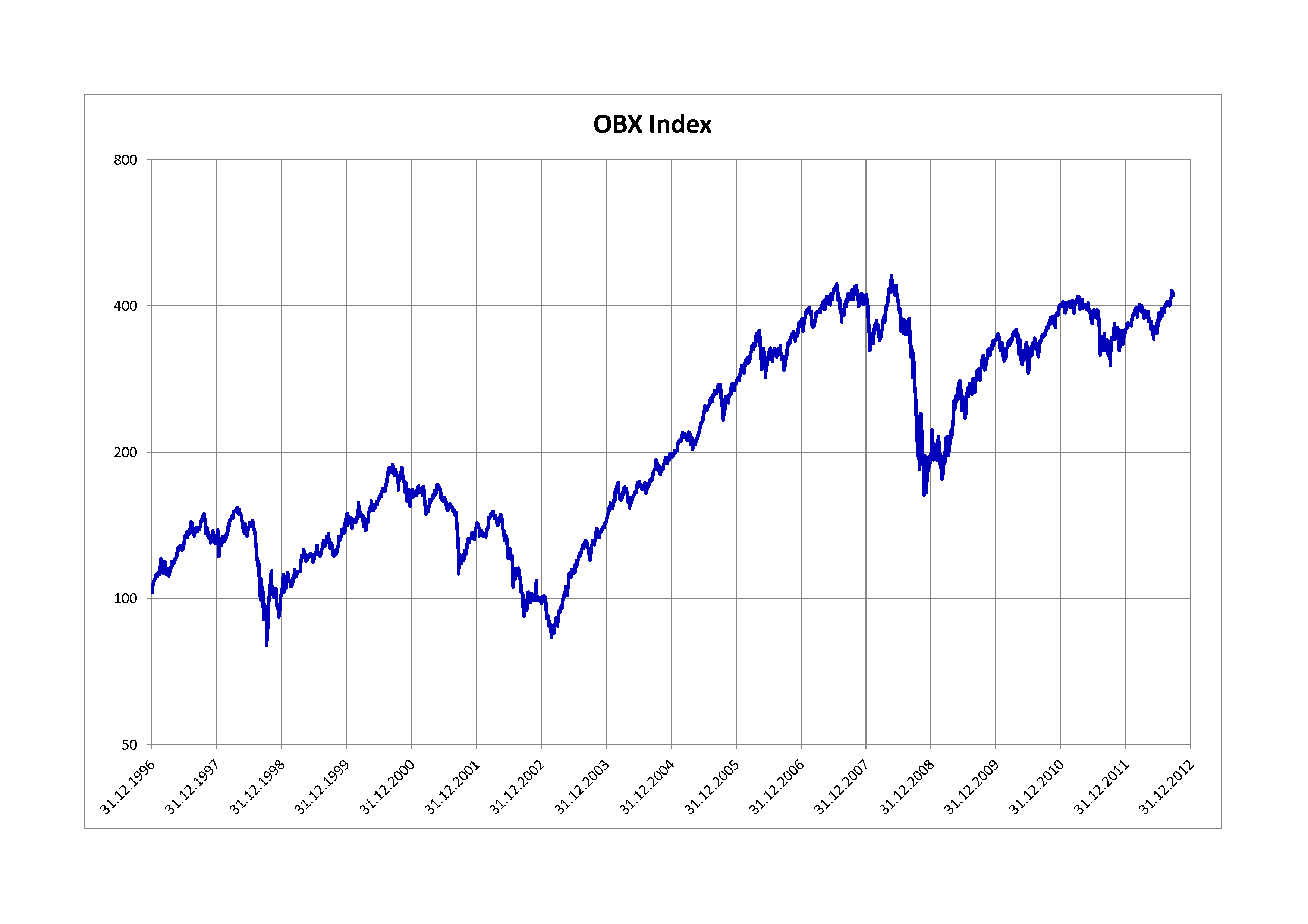 OBX Index from December 1996 to September 2012 (daily closings)